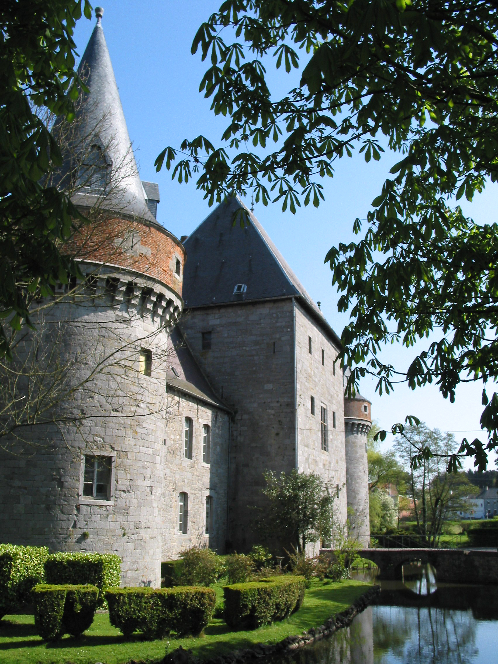 Solre-sur-Sambre (Belgium), the keep and the two southern towers of the castle (XIV/XVIth centuries).